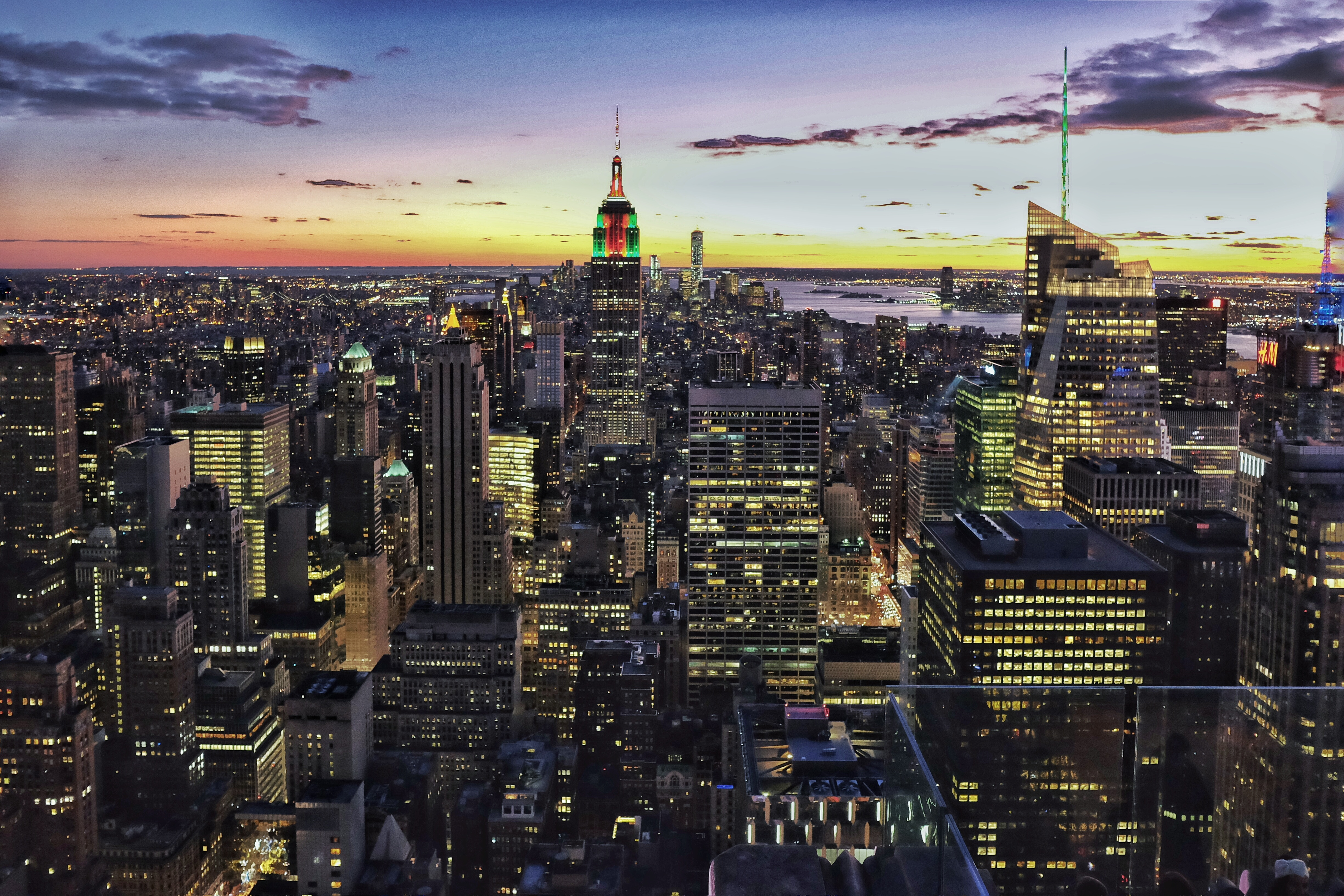 Top of the Rock, New York, United States